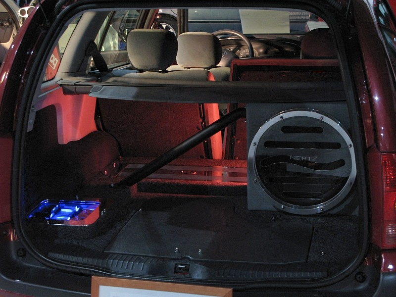 Hifi equipment in the trunk of a car.